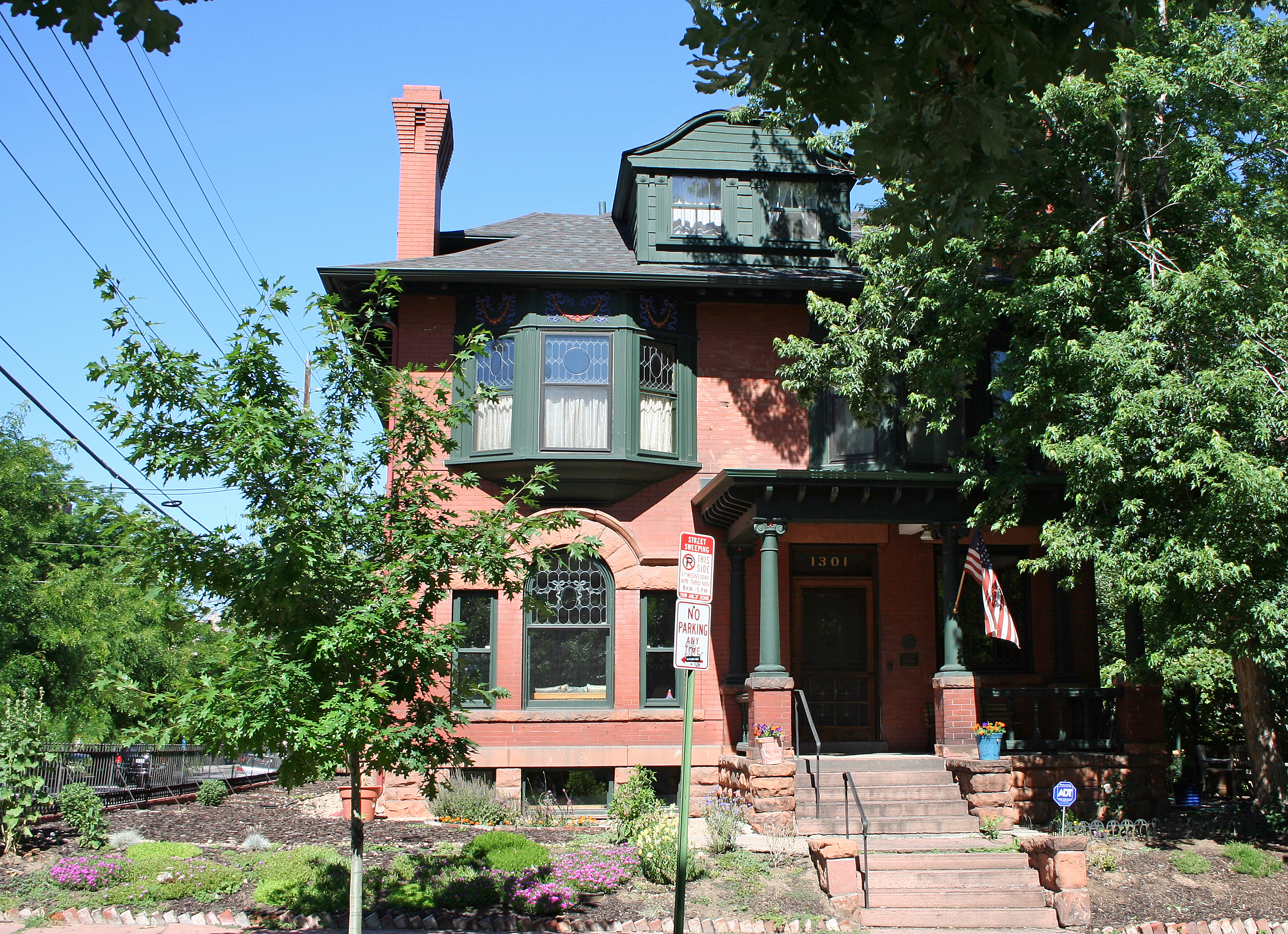 The Doyle-Benton House, located at 1301 Lafayette Street in Denver, Colorado